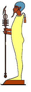 Color image of Ptah.